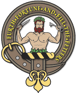 The Murray Clan Crest Badge as realized by Will Murray (Willscrlt). "On a Wreath Or and Sable a demi-savage Proper wreathed about the temples and waist with laurel, his arms extended and holding in the right hand a dagger, in the left a key all Proper." This version features shadowing, and the image is 250×300 pixels set against a transparent white matte background.